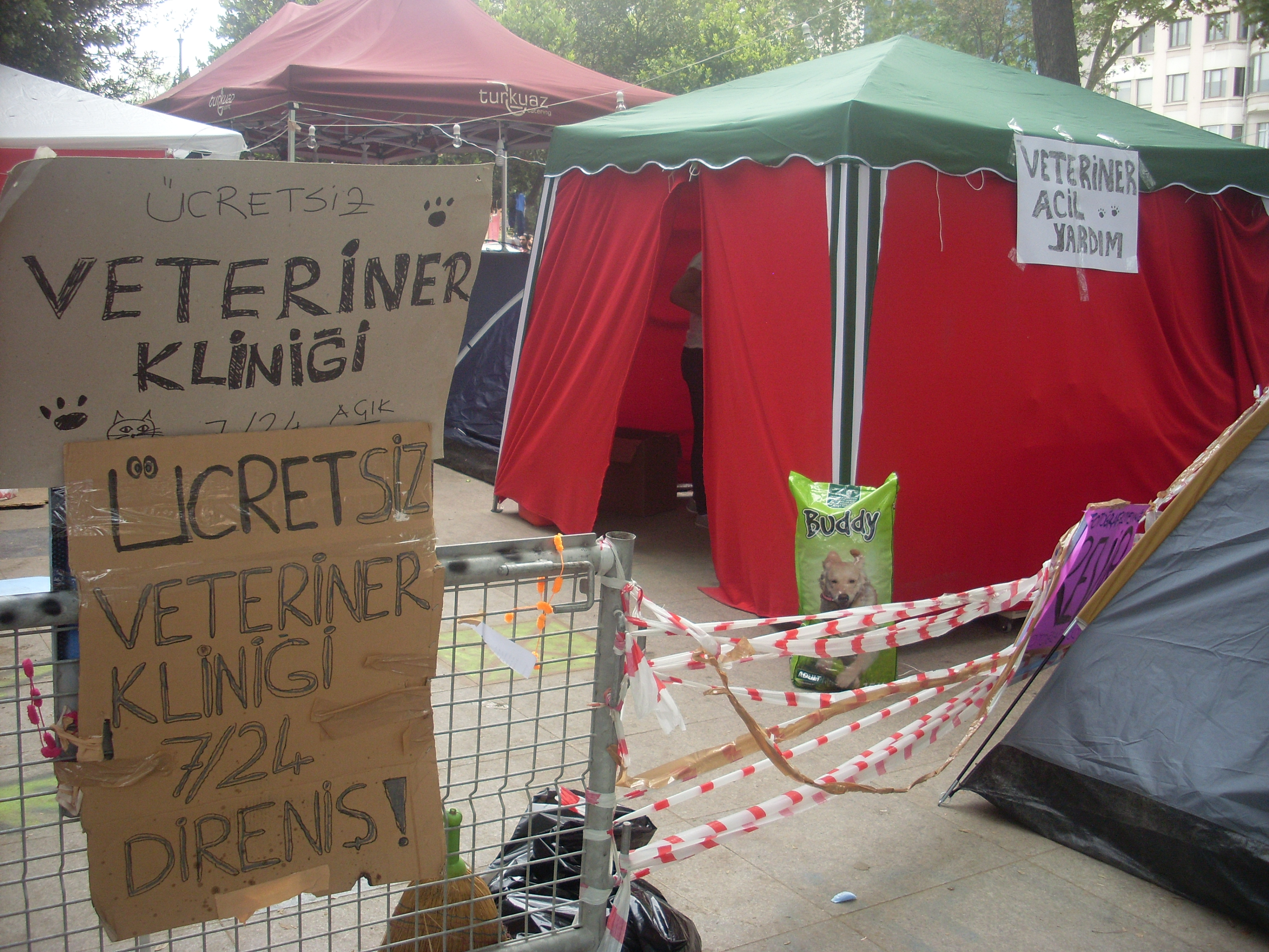 Veterinarian Clinic at Taksim Gezi Park, 7th June